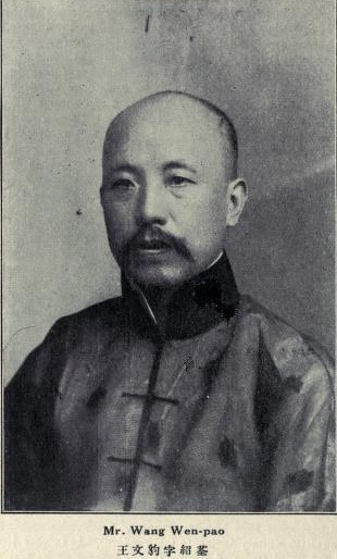 Wang Wenbao, Shaoquan (born 1873)